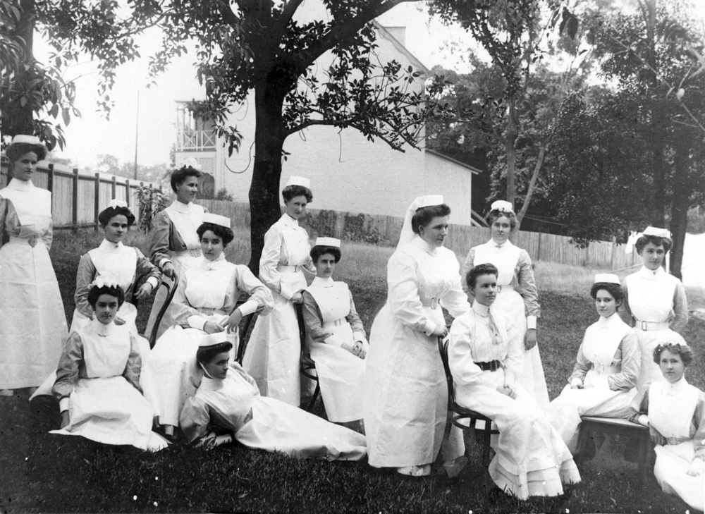 Lady Bowen Lying In Hospital, Wickham Terrace, Brisbane, Graduation class of 1907. ouisa Linning is second from left, seated. She would become matron at Marburg Private Hospital, Ipswich, Dr Eleanor Greenham is sitting in front of Matron Capner. (Eleanor not in nurses uniform)